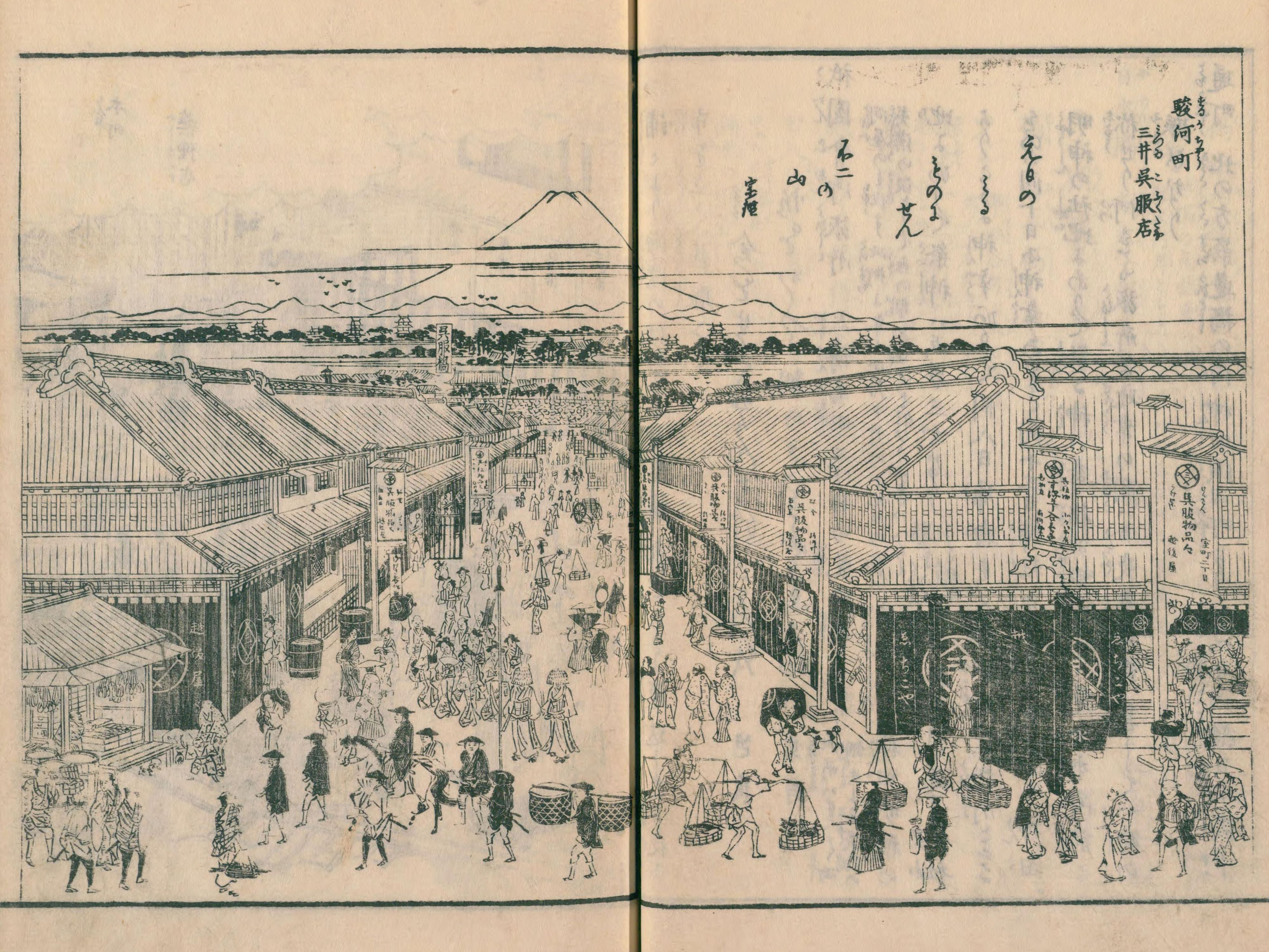 Mitsui Gofukuten at Suruga-chō in Edo Meisho Zue vol. 1 (book 1)